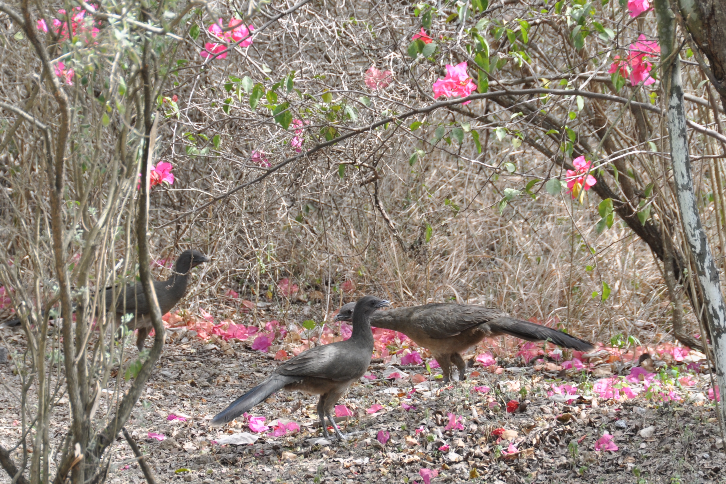 Group of three Plain Chachalacas Ortalis vetula, between Linares and Montemorelos, Huertas, Nuevo León, Mexico.